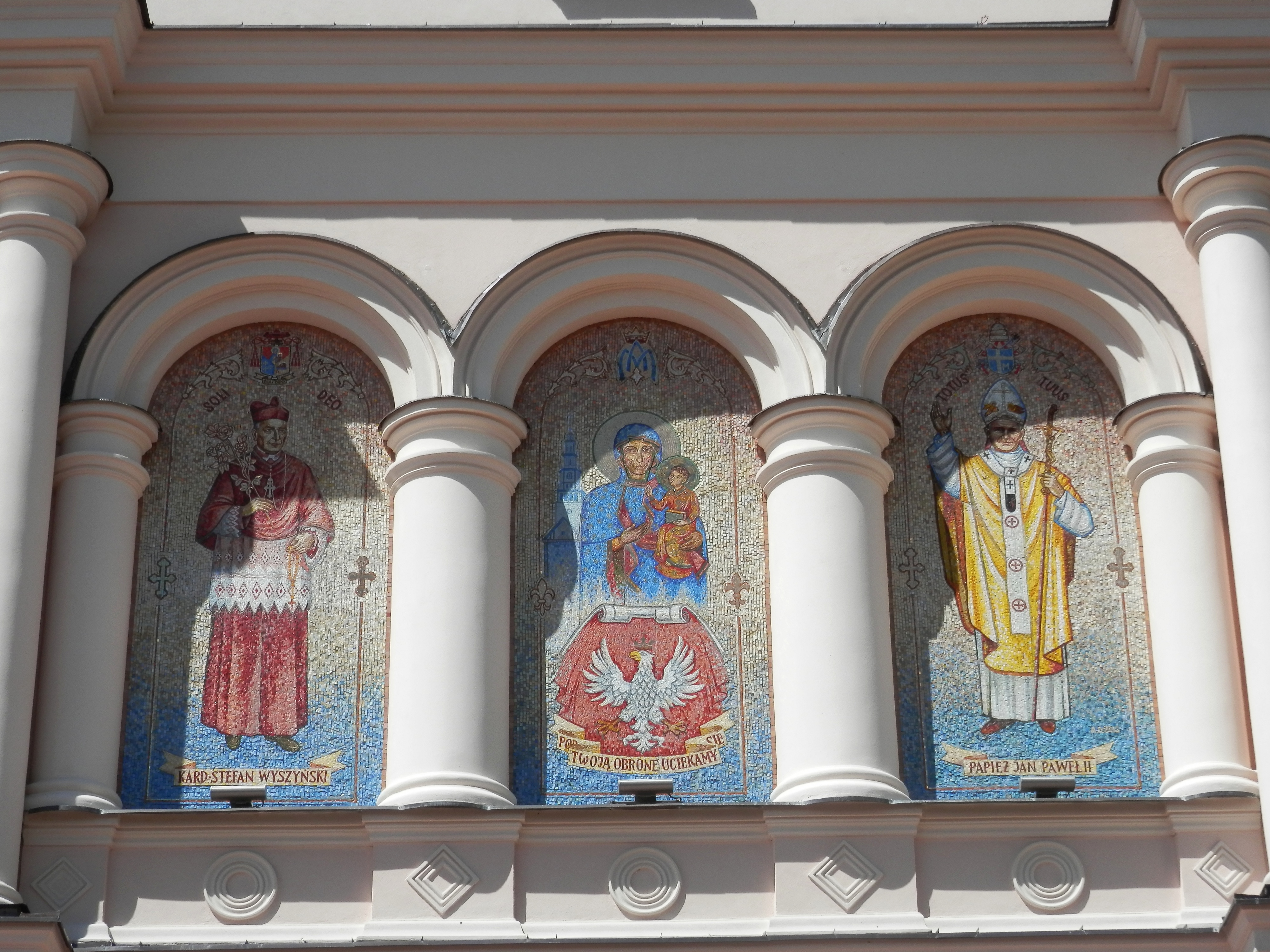 Wysokie Mazowieckie, parish church of St. John the Baptist